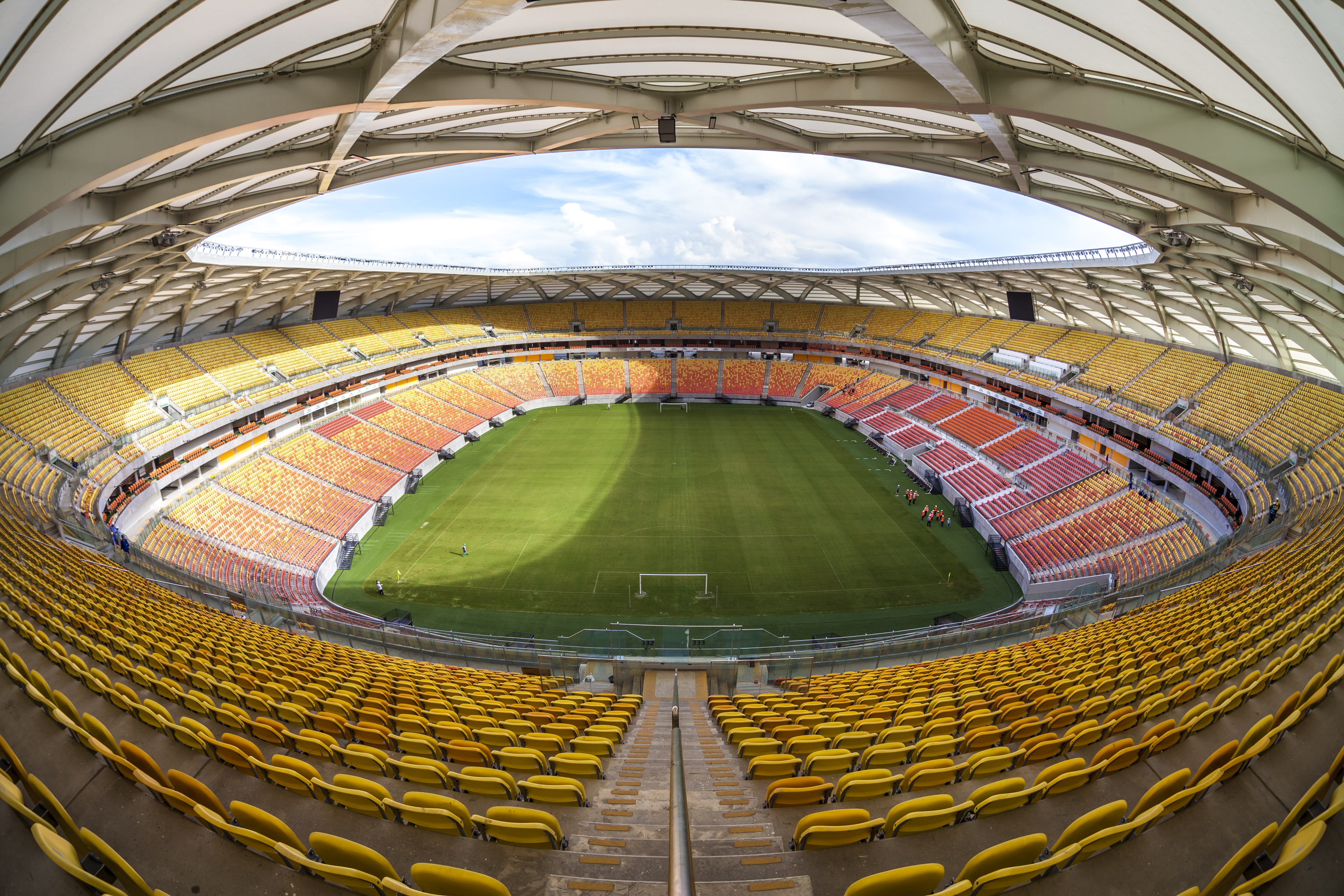 Interior of the Amazon Arena, Manaus, Amazonas state, Brazil.